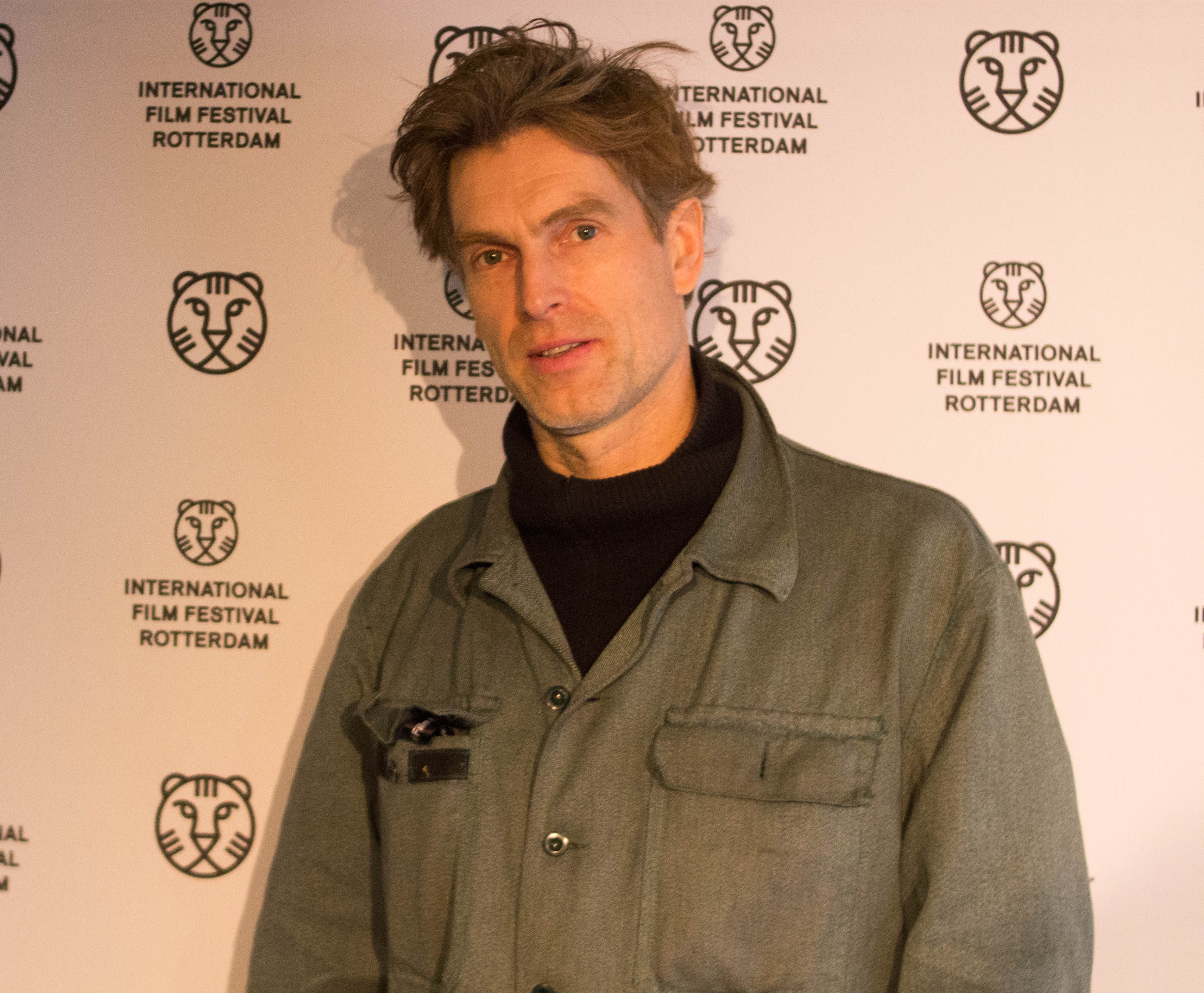 Joost Conijn at the premier of his film Good Evening to the People Living in the Camp